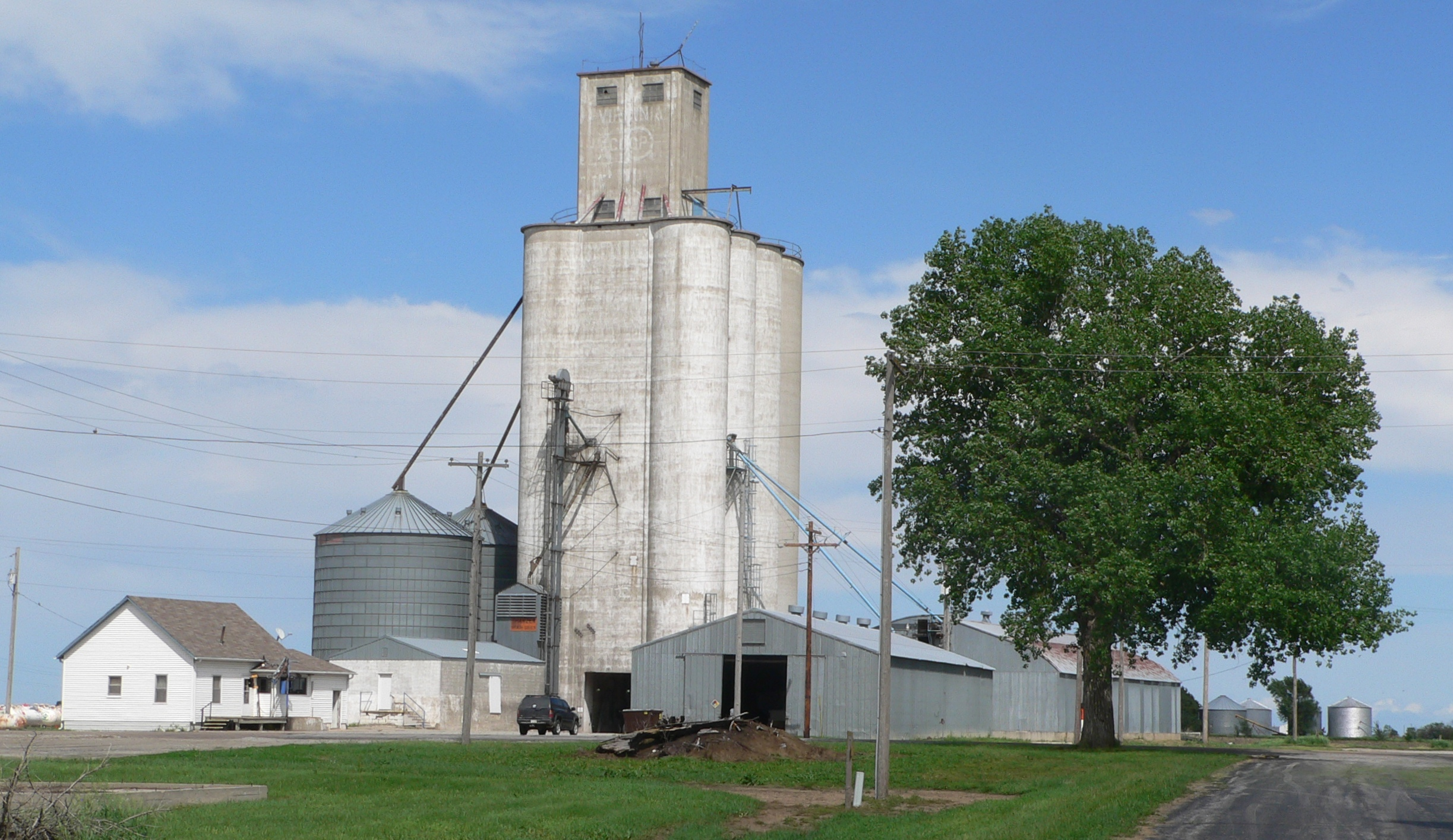 Grain elevator at northeastern edge of Virginia, Nebraska.